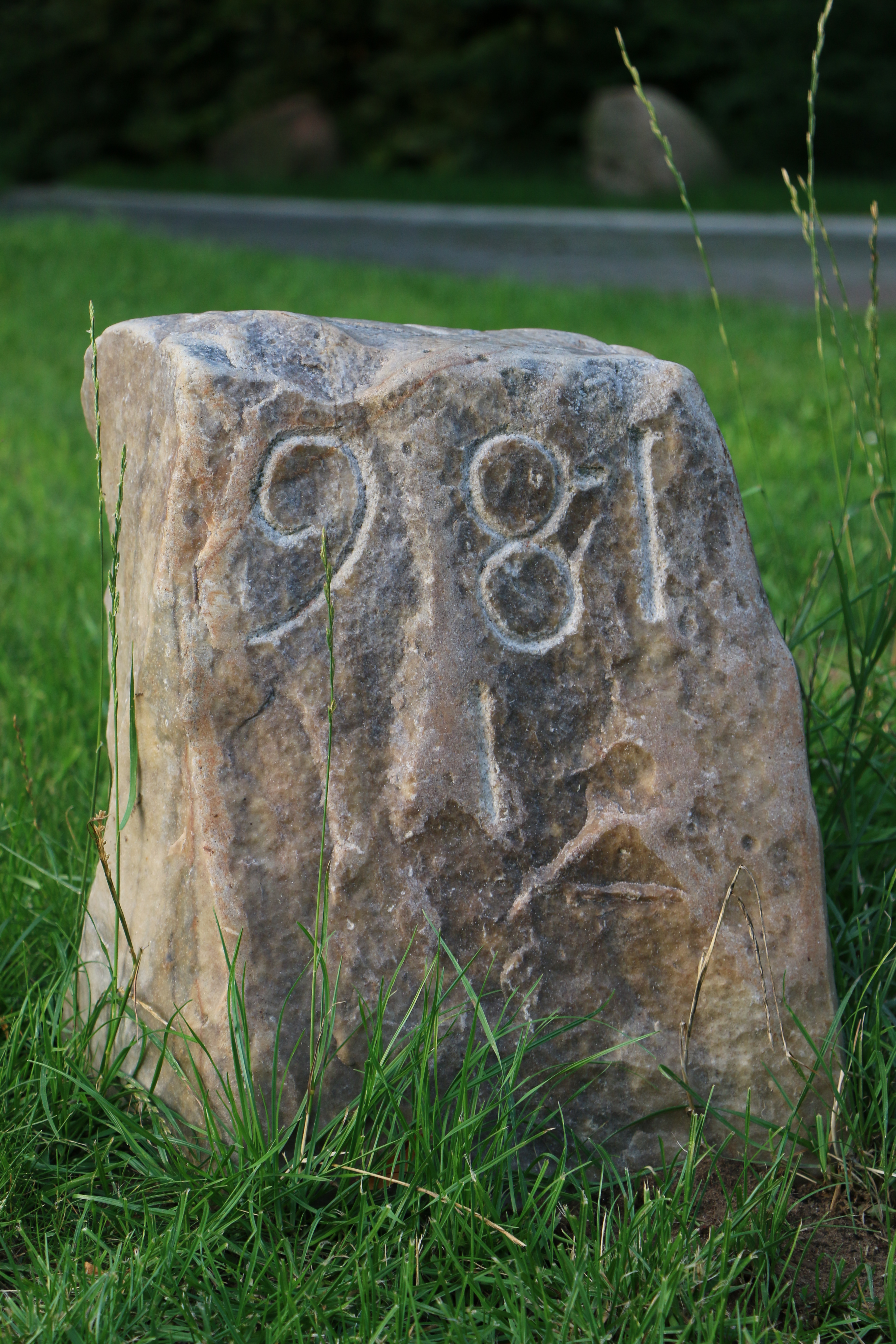 Historical stone from an old Dyke in Oldershausen, Lk. Harburg, Lower Saxony